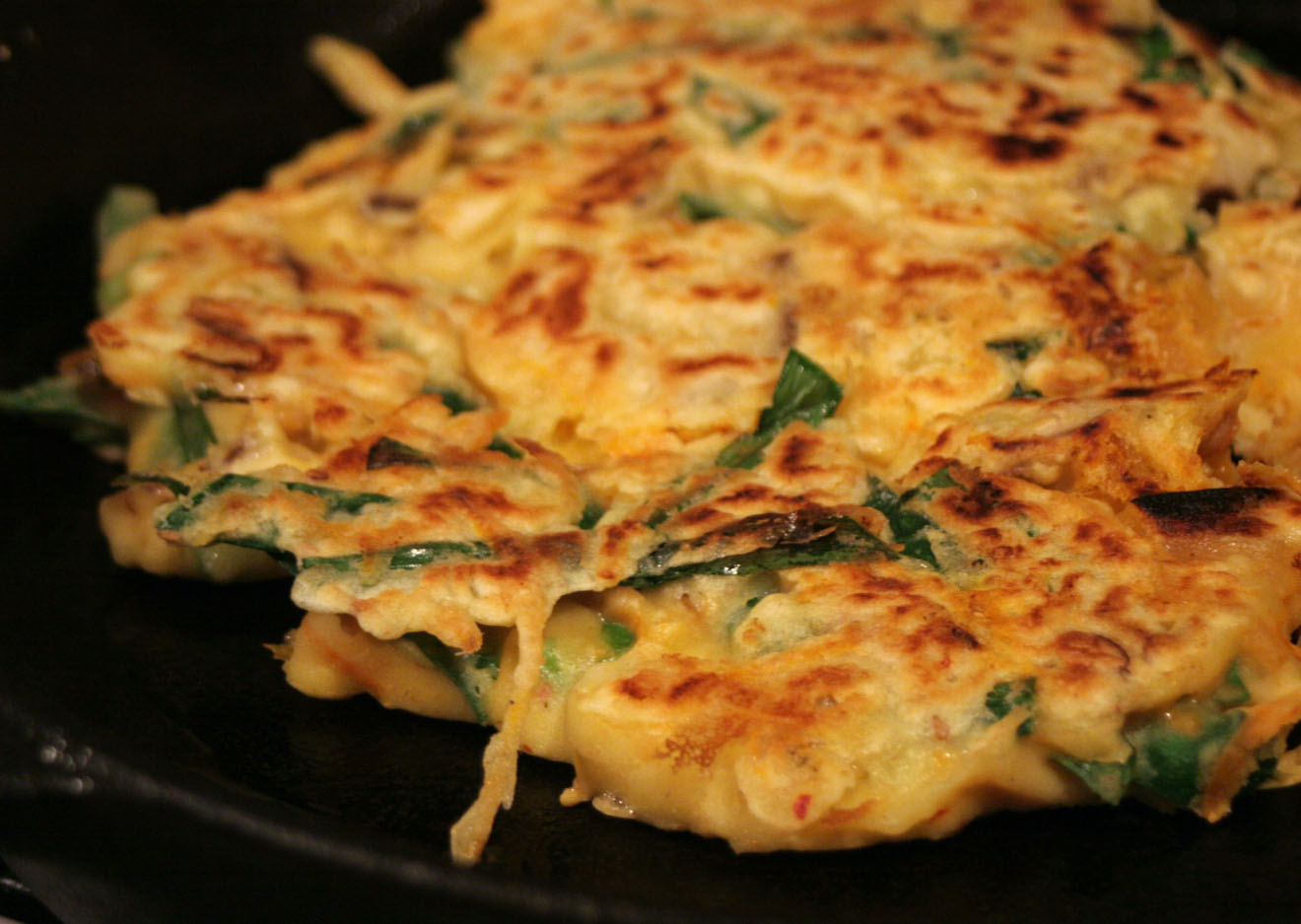 Pajeon, Korean pancake Recipe here on Pithy and Cleaver